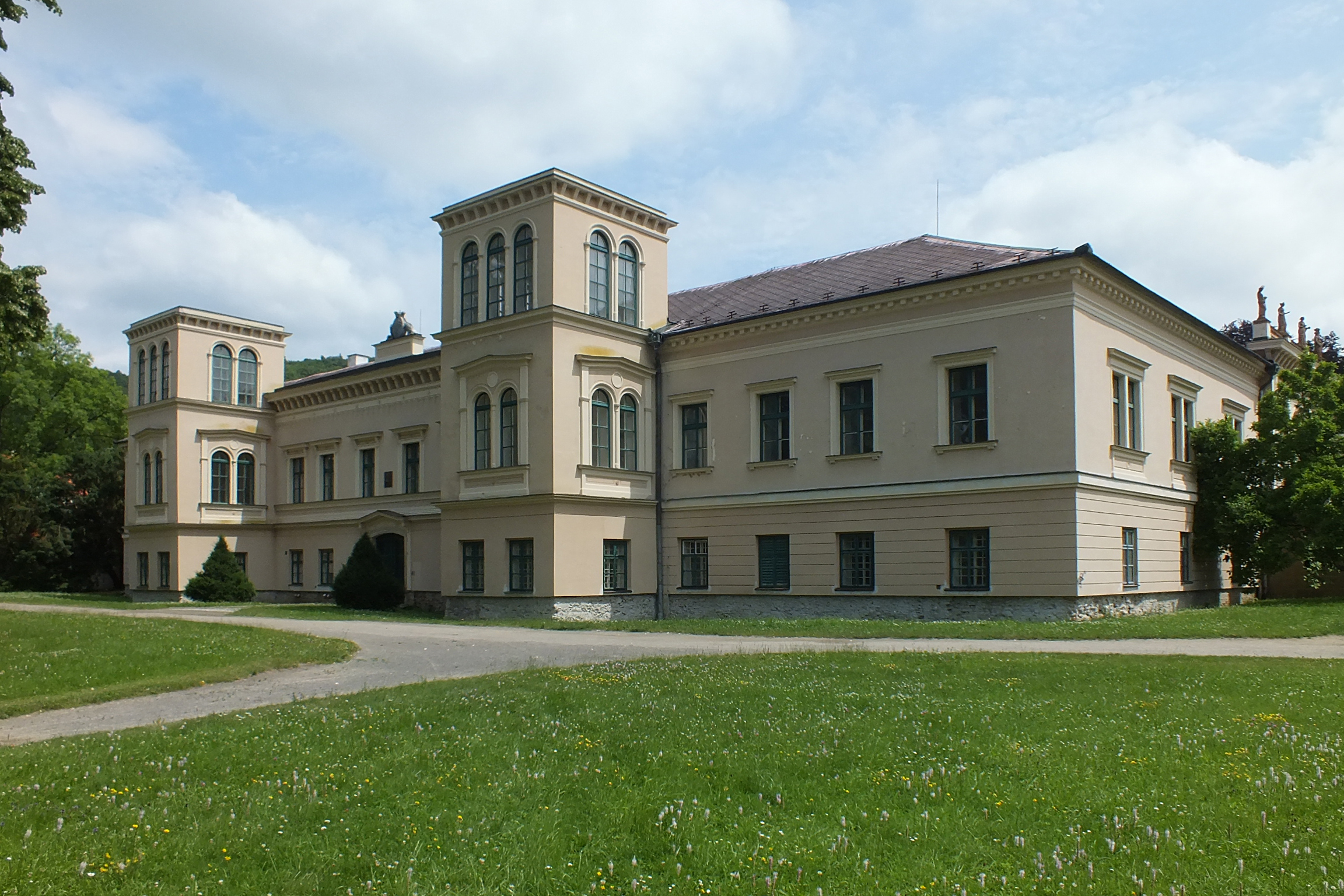 Chateau in Čechy pod Kosířem